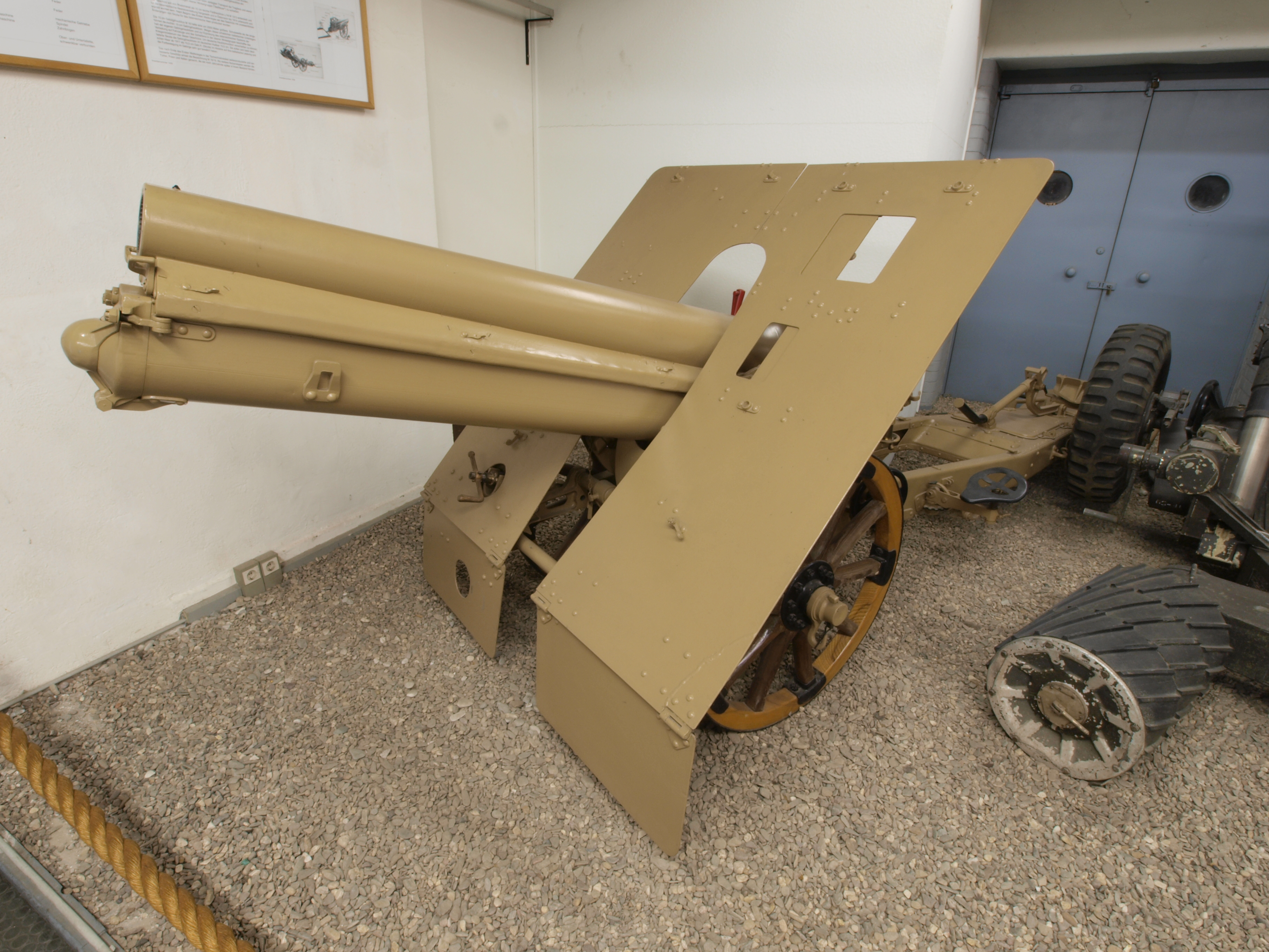 This is a 100 mm Skoda Mountain howitzer instead a Feldkanone (Field gun) M. 97